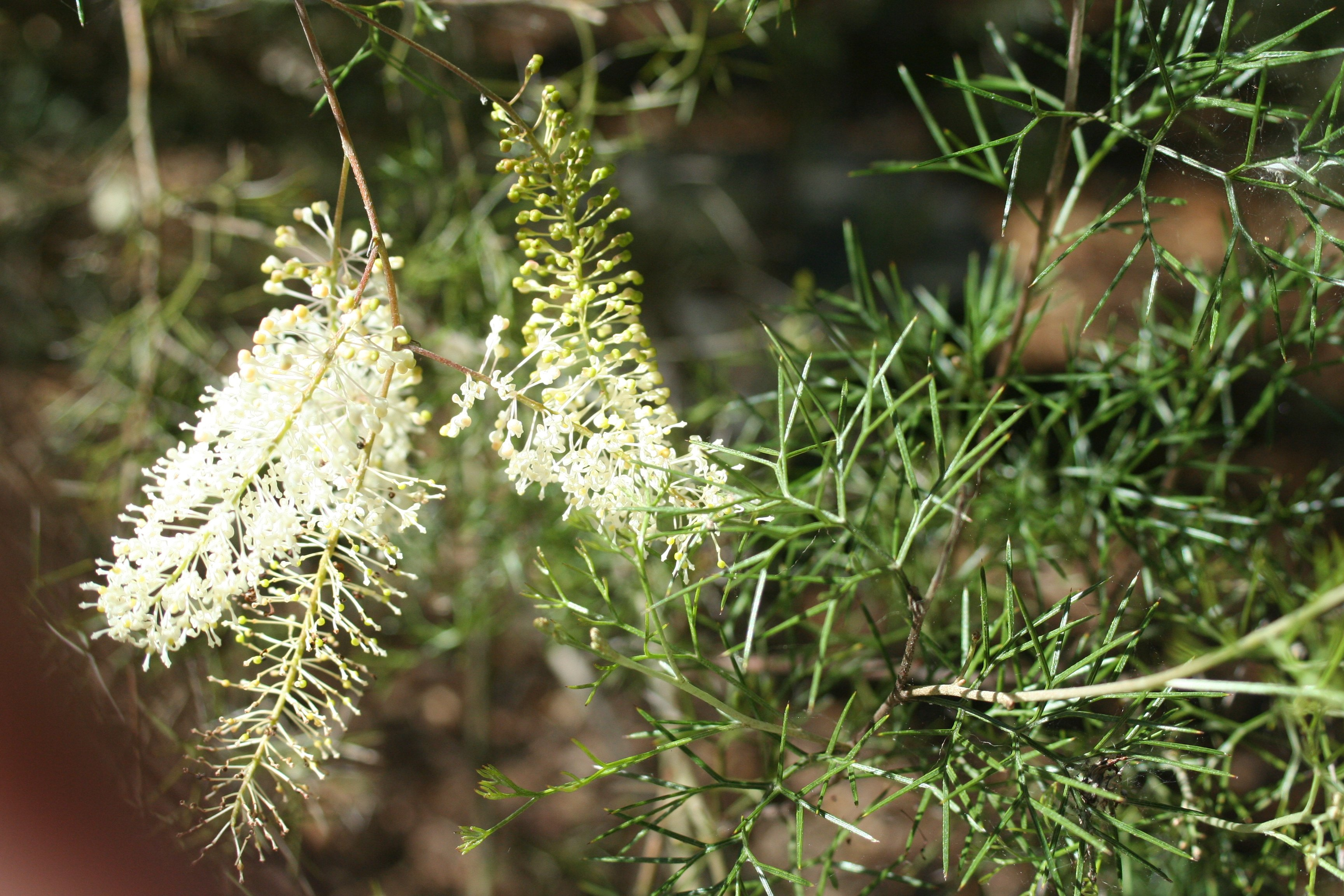 Photo of Grevillea leptopoda showing leaves and flower.